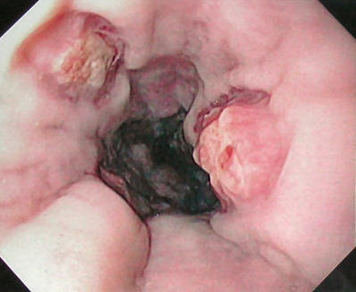 Esophageal ulcers after banding, posted in public domain with permission of patient.